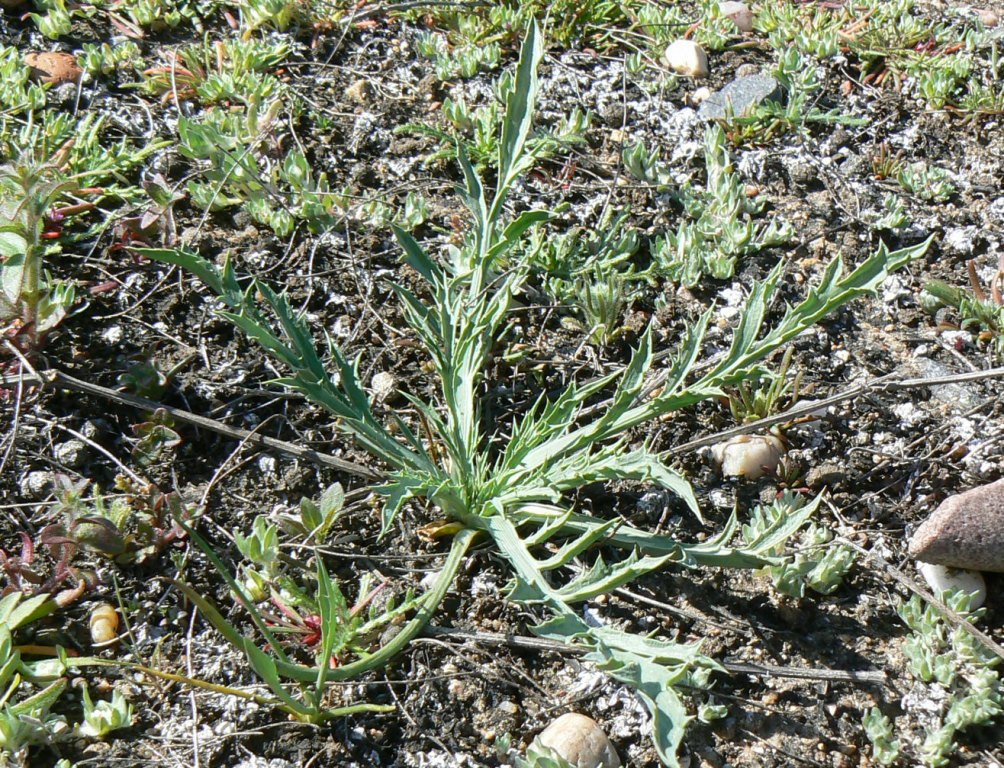 Eryngium aristulatum var. parishii USFWS photo